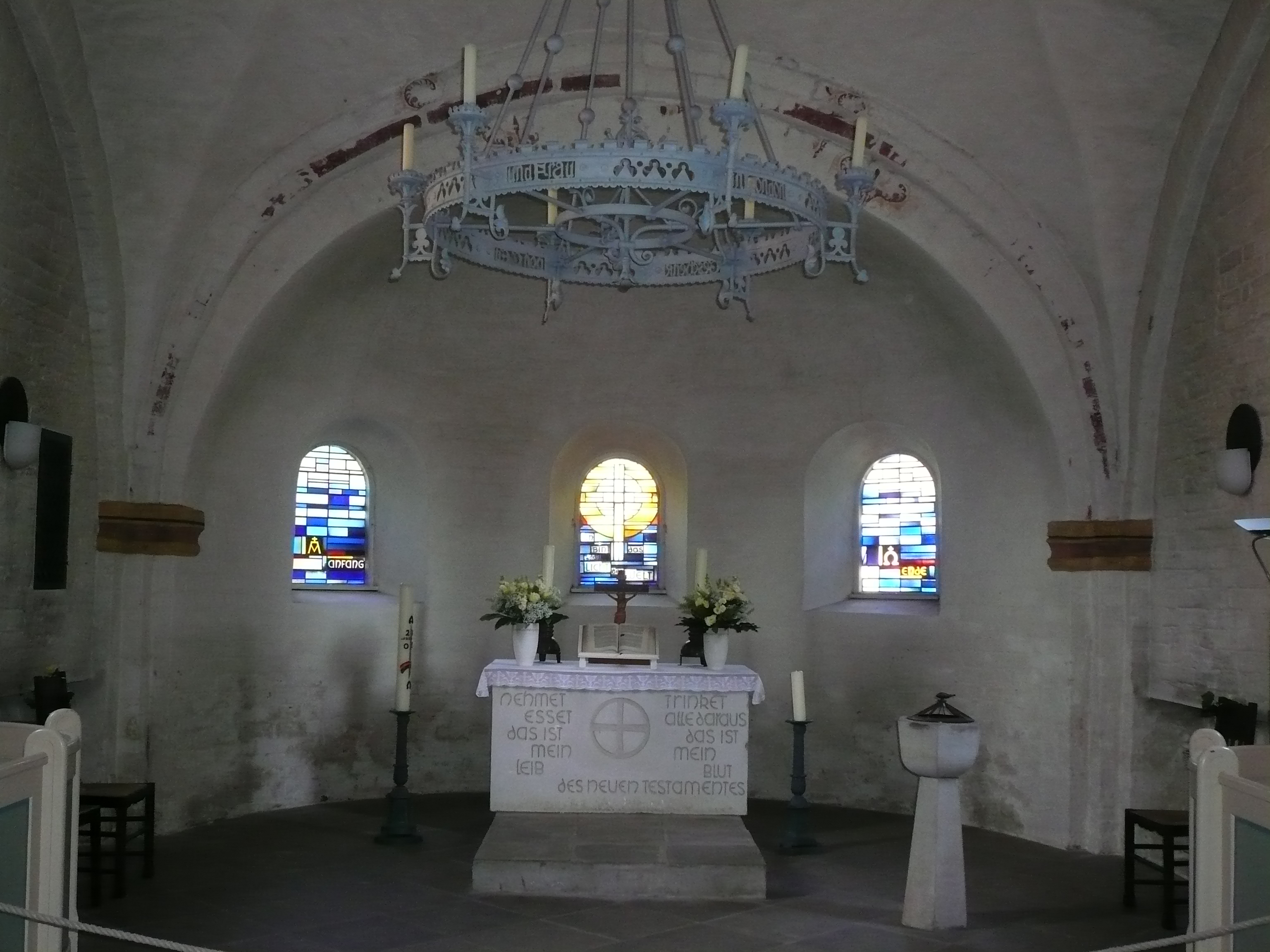 The sanctuary of the church of St. Jürgen in Lower Saxony